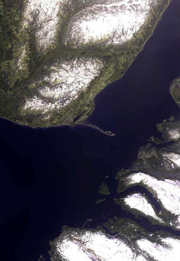 Imagery by NASA and/or the US Geological Survey. Processed by Terra Prints Inc. Satellite image of Homer, Alaska